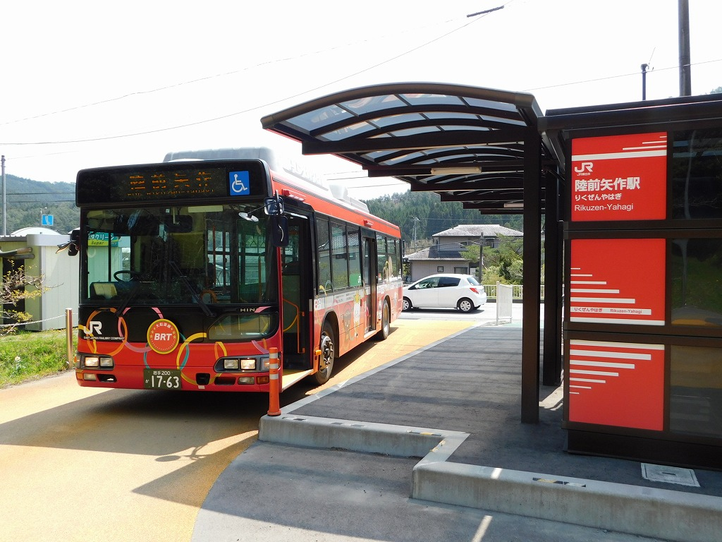 JR East Ofunato line (BRT) Rikuzen-Yahagi station